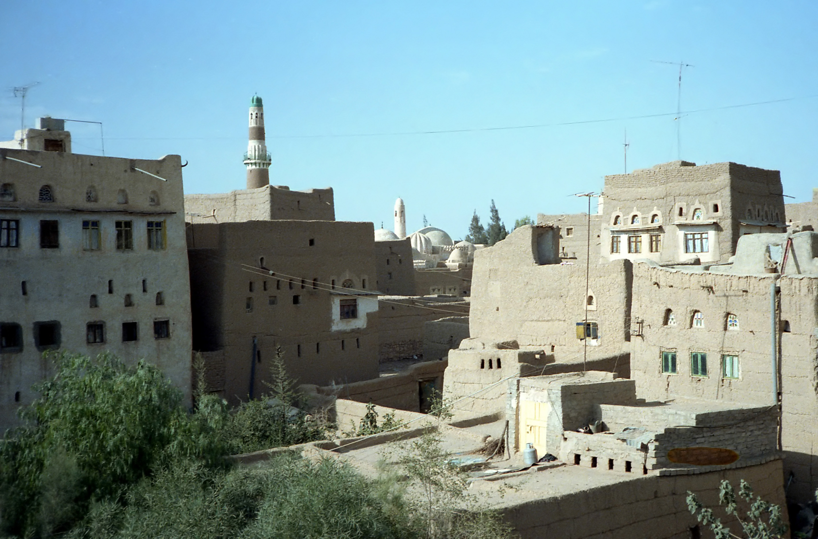 City of Sa'dah, Yemen